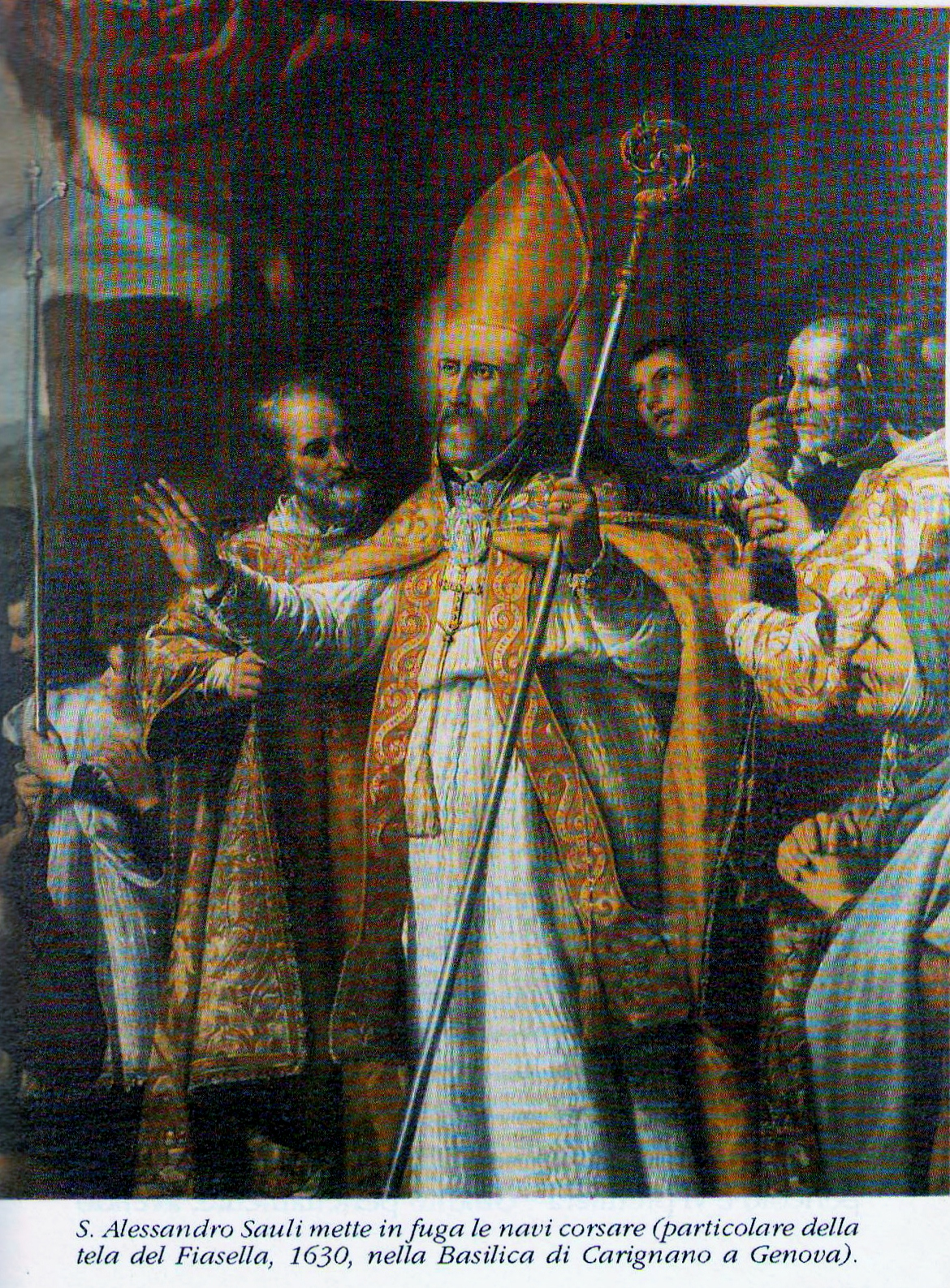 Alexander Sauli puts to flight the pirates ship